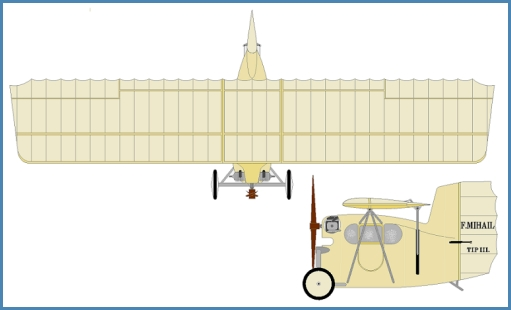 Filip Mihail Stabiloplan III